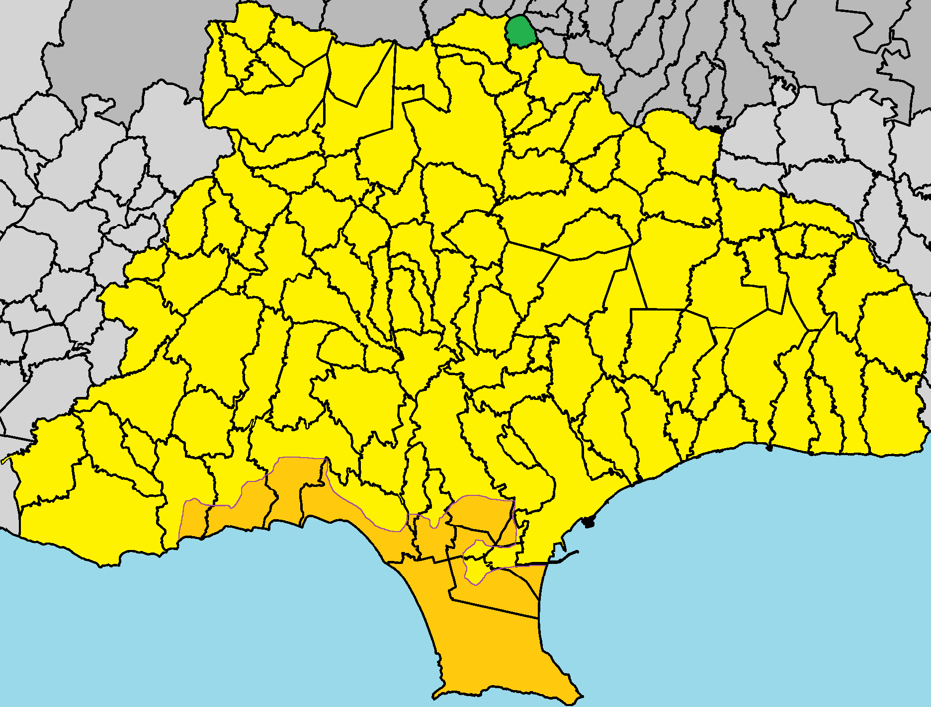 Chandria in Limassol District.